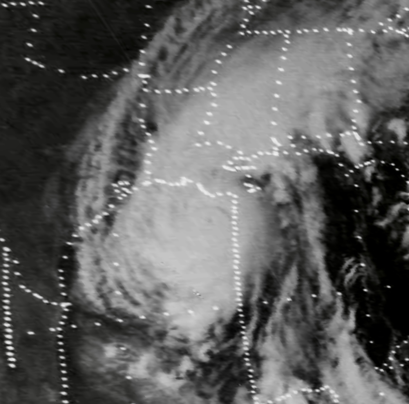 Satellite image of Hurricane Carmen near landfall in the United States